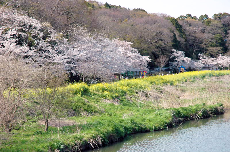 Hanashima Park. seen from Hanashima bridge, Chiba, Japan., Hanamigawa Ward.